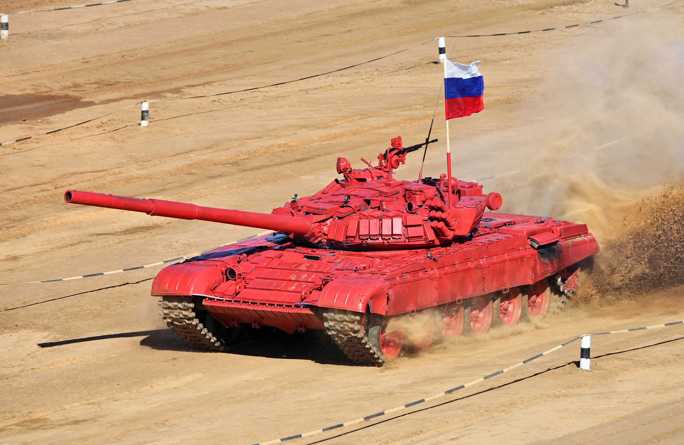 T-72B